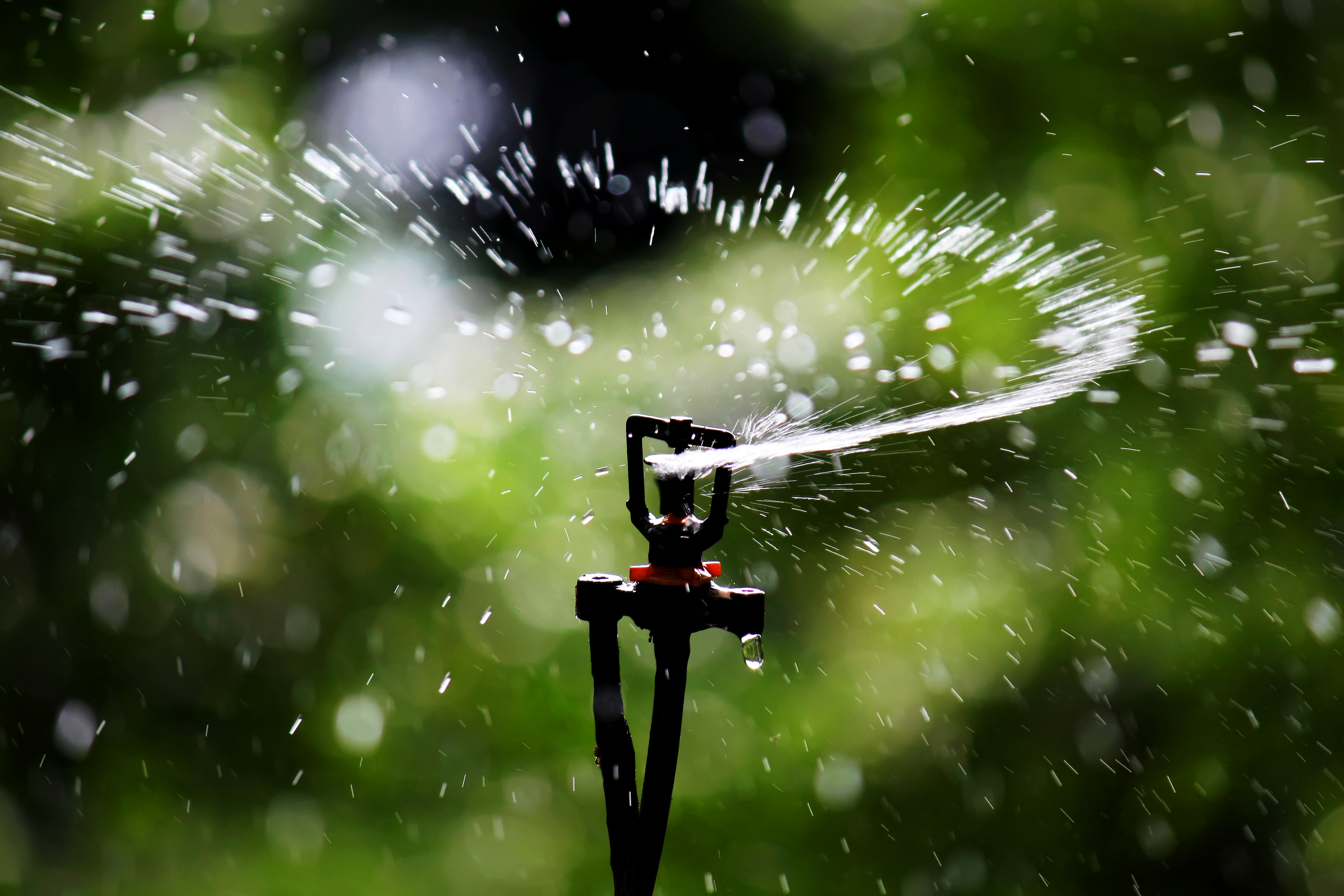 Micro-sprinkler used for irrigation.